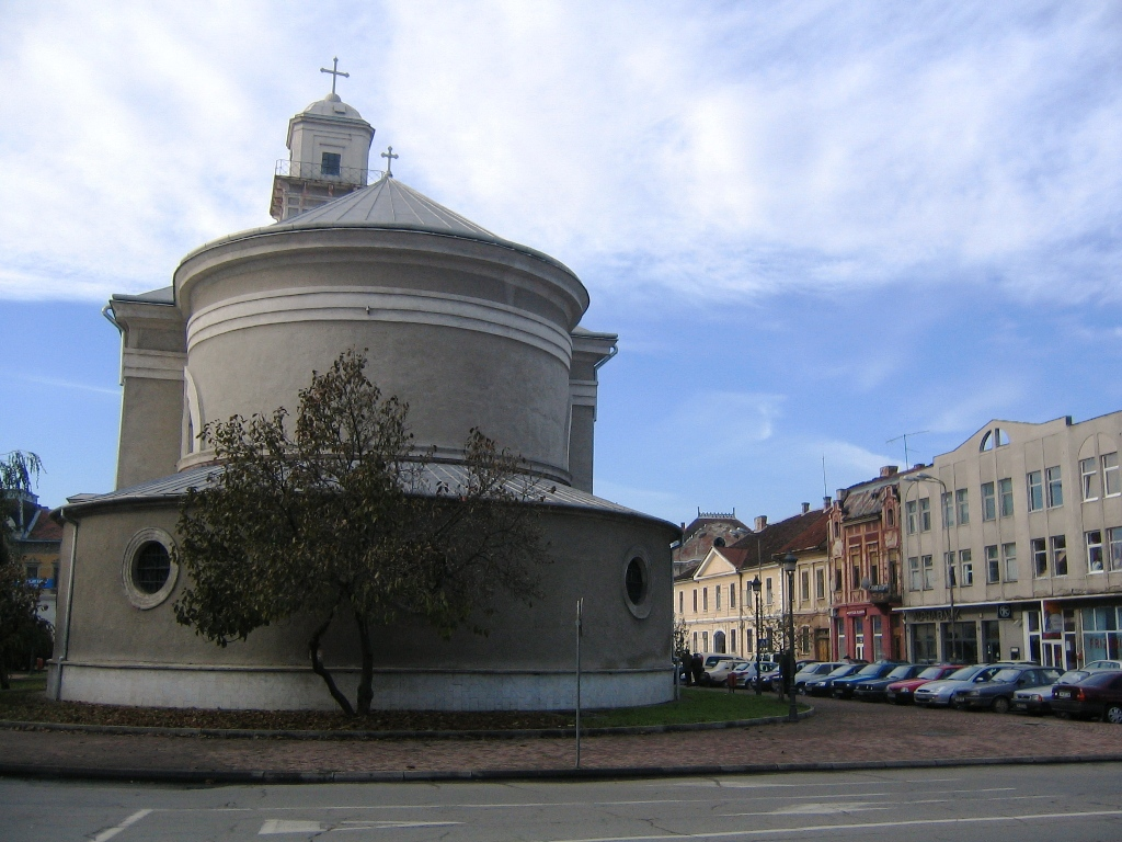 Greek-Catholic Church (back), Lugoj, Romania